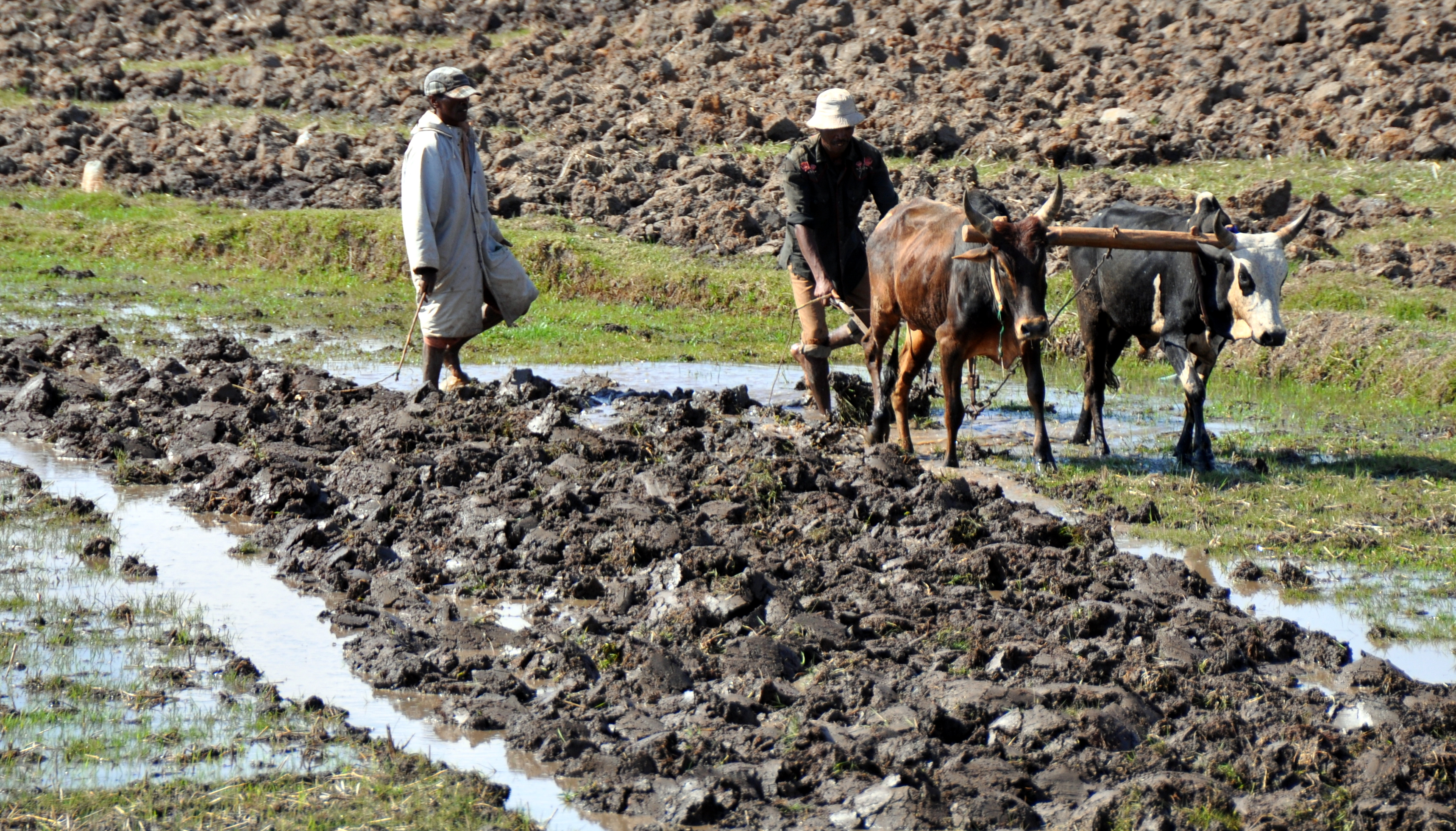 entre Antsirabe et Miandrivazo This is an image of "African people at work" from Madagascar